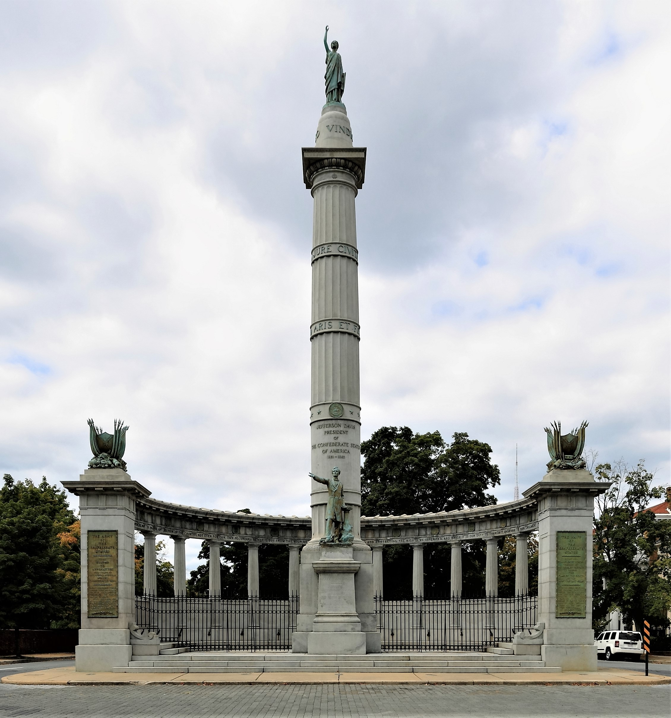 Monument Avenue Historic District: Jefferson Davis